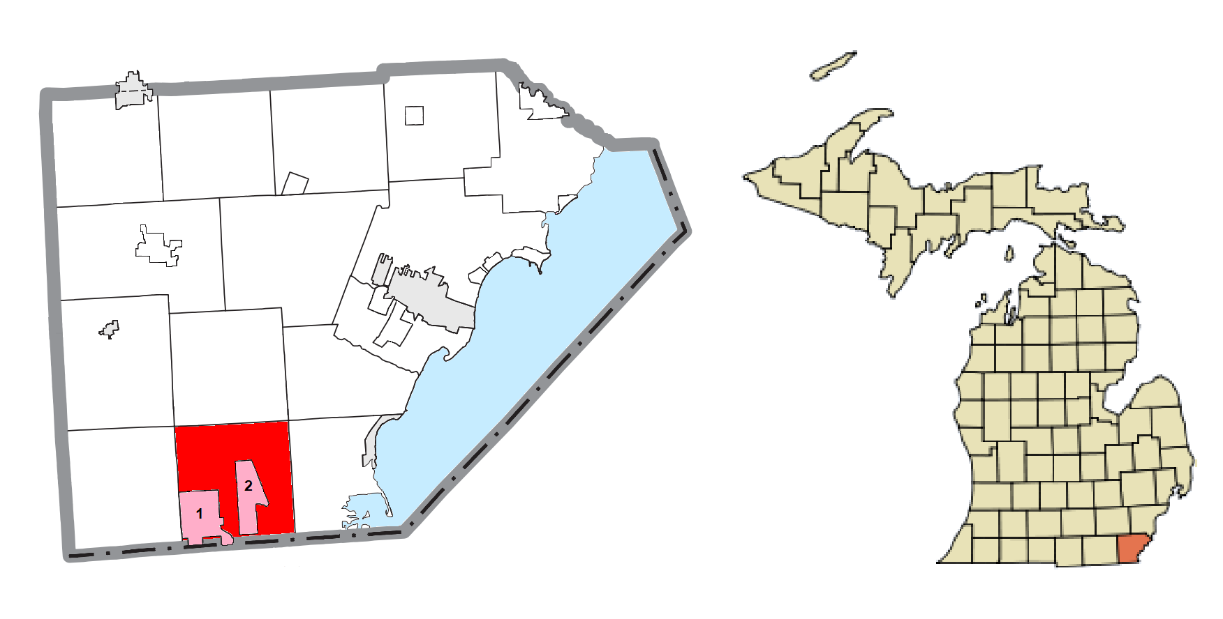 Bedford Township, MI